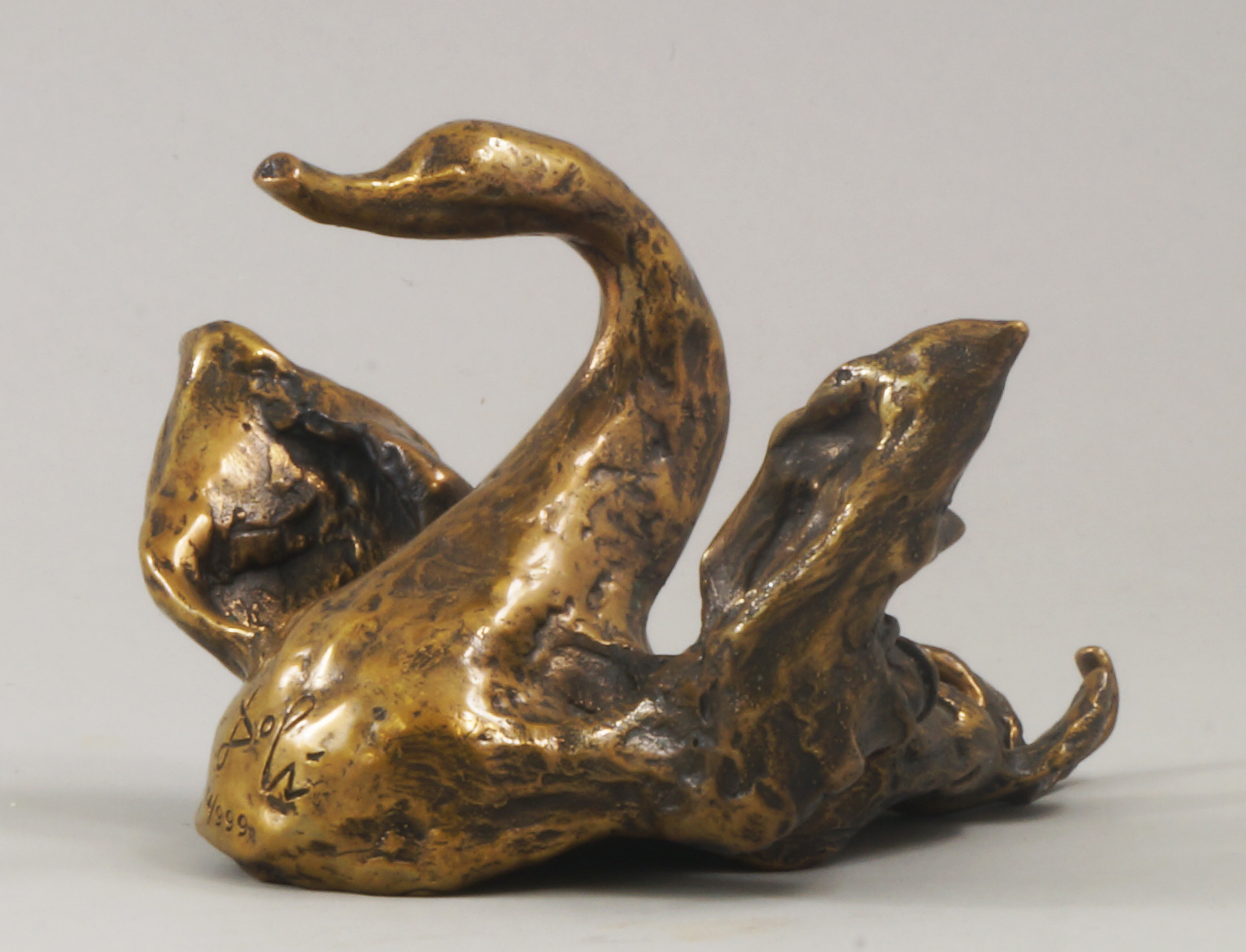 Salvador Dali - Clot Collection Swan